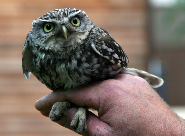 A Little Owl at Brackenborough Hall This is a full grown female and was caught and ringed by a farm worker who is also a volunteer for the British Trust for Ornithology. She had caught a mouse for her tea. The farm owners are very wildlife aware recognising the wildlife benefit of "set aside" land and higher hedges. for information (and maybe another photo of the owl).